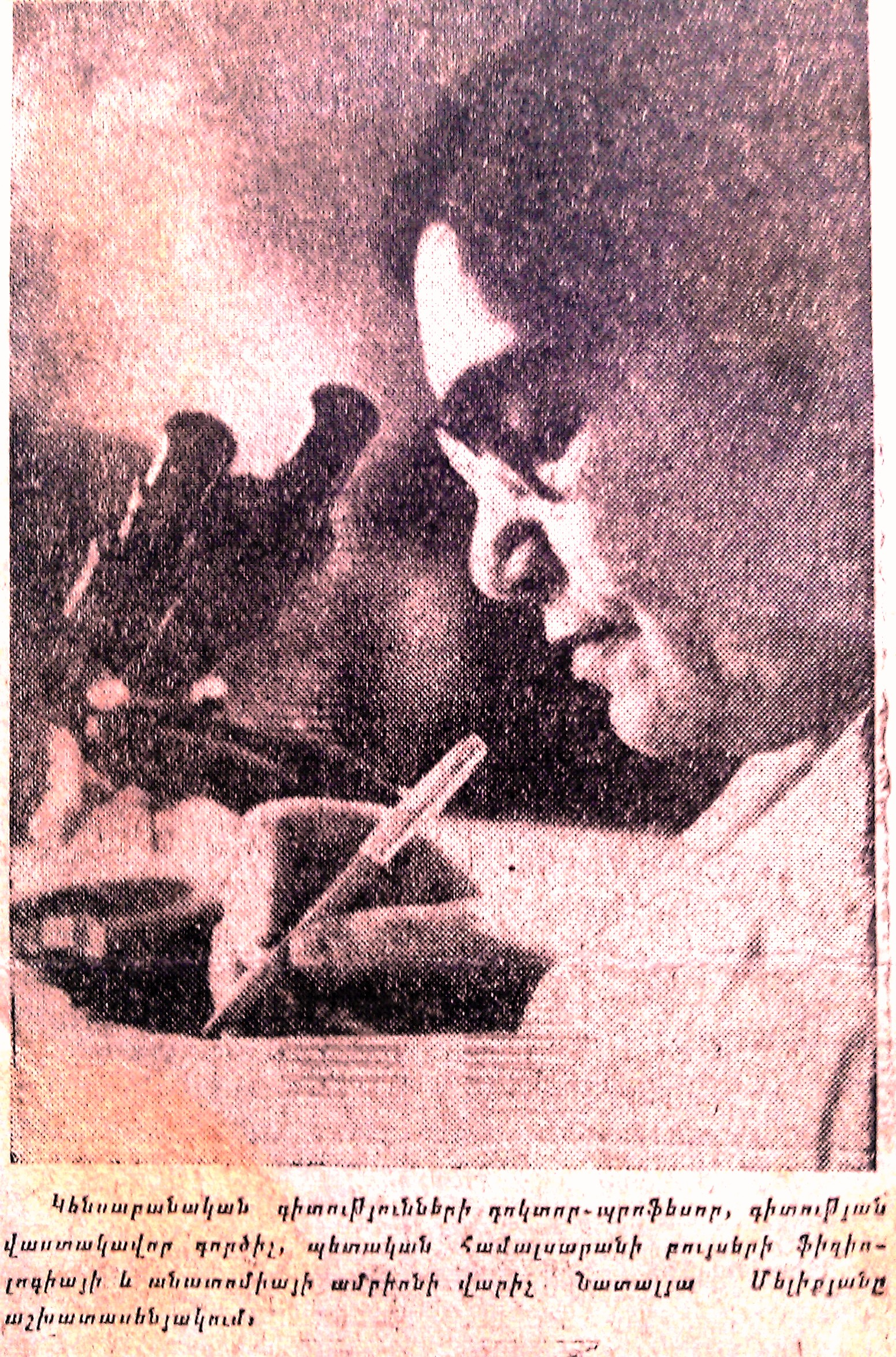 Dr. Prof. Melikyan during research process